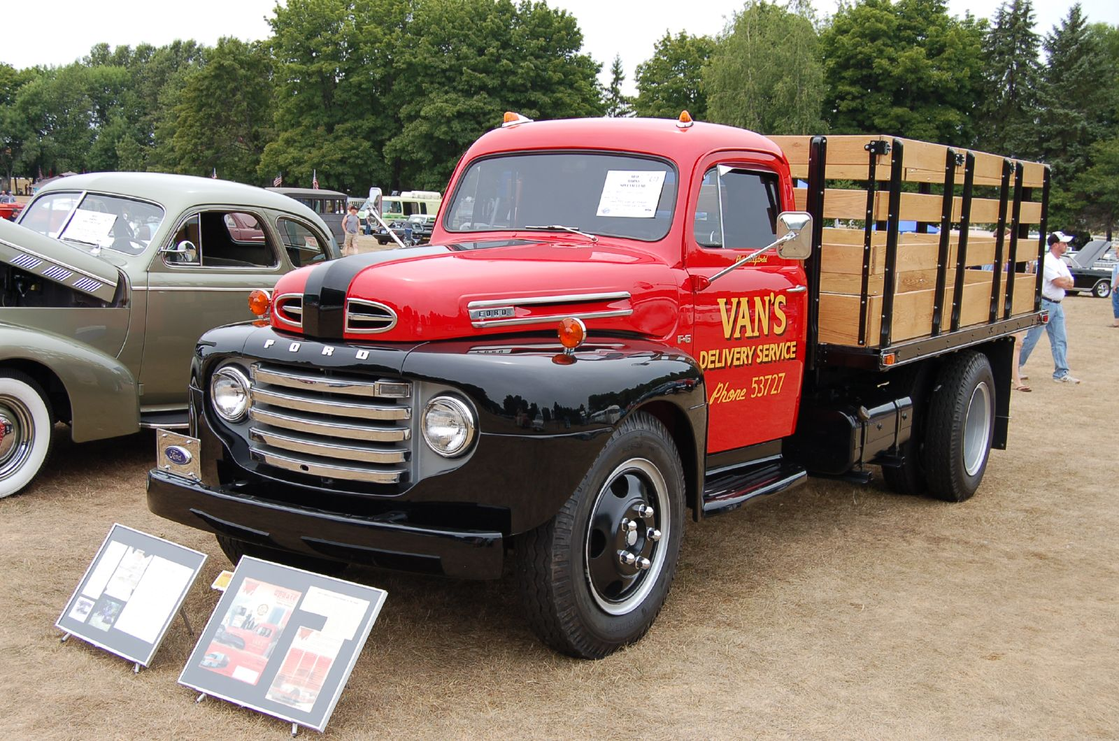 Taken during the 2007 "Red Barns Spectacular" car show at the Gilmore Car Museum, Hickory Corners, Michigan.